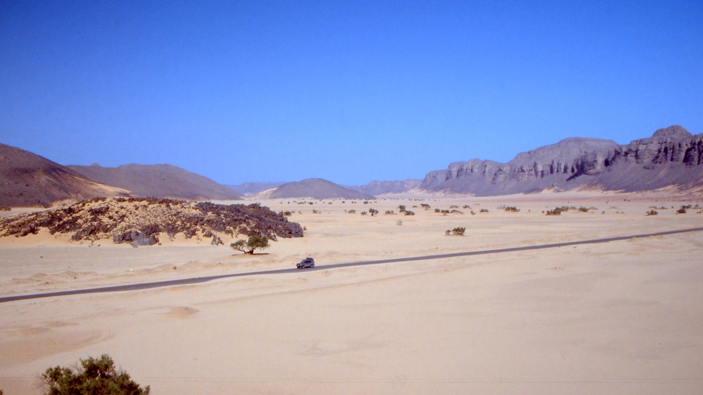 Trans-Sahara highway (National Road N1) in Algeria (1991)